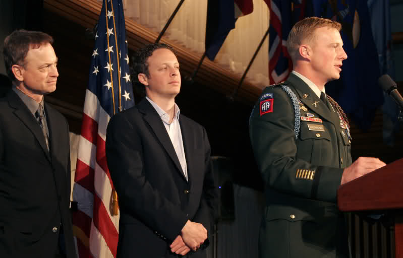 Premier of Brothers At War at the National Press Club, February 20, 2009. Army Capt. Isaac Rademacher answers a question while his brother Jake Rademacher and actor Gay Sinise look on after the premiere of 'Brothers at War' Feb. 20 at the National Press Club. Jake made the documentary while he was embedded with four different combat units in Iraq.